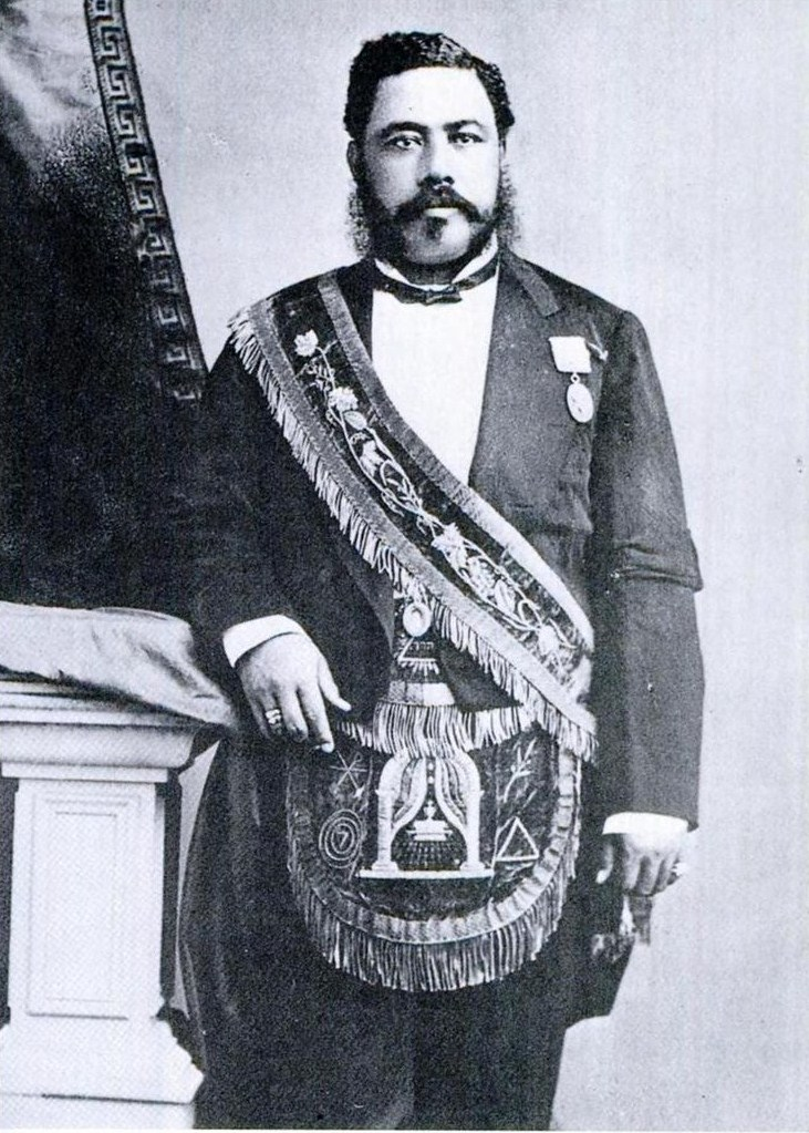 Kalakaua in the uniform of a Scottish Rite Mason. Lodge Le Progres de L'Oceanie No. 124. A. and A. S. R. Honolulu A. I.